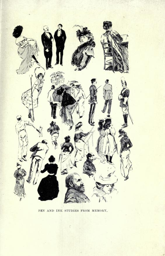 Print for Japanese artist in London by Yoshio Markino of sketches